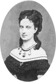 Maria Isabella of Tuscany